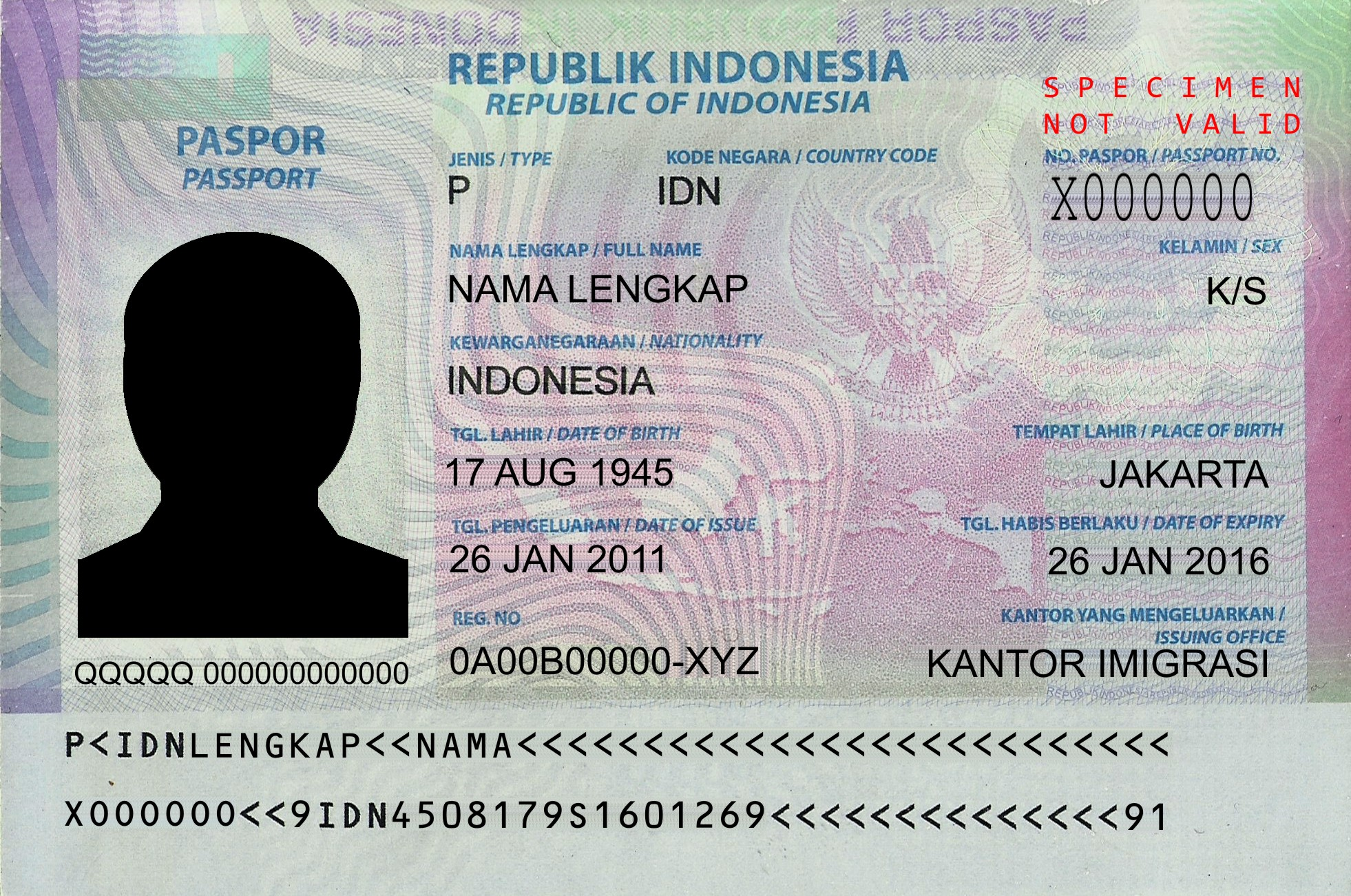 A sample of data page (page 2) of an Indonesian passport. Personal data has been edited out and superimposed by a universal mock-up identity for illustration purposes.